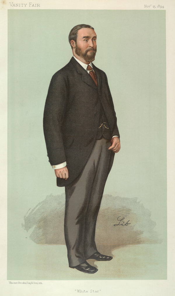 Men of the Day No.603: Caricature of Mr TH Ismay. Caption reads: "White Star"